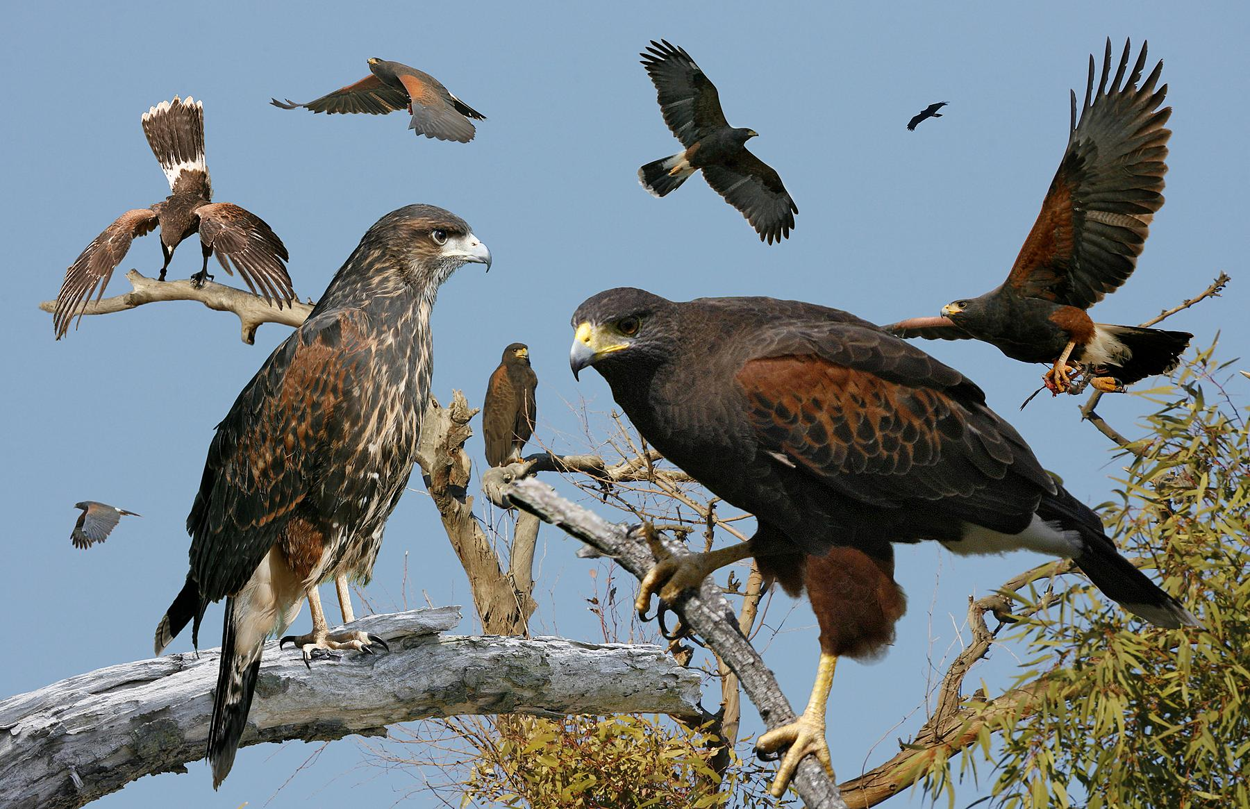 Harris Hawk From The Crossley ID Guide Eastern Birds